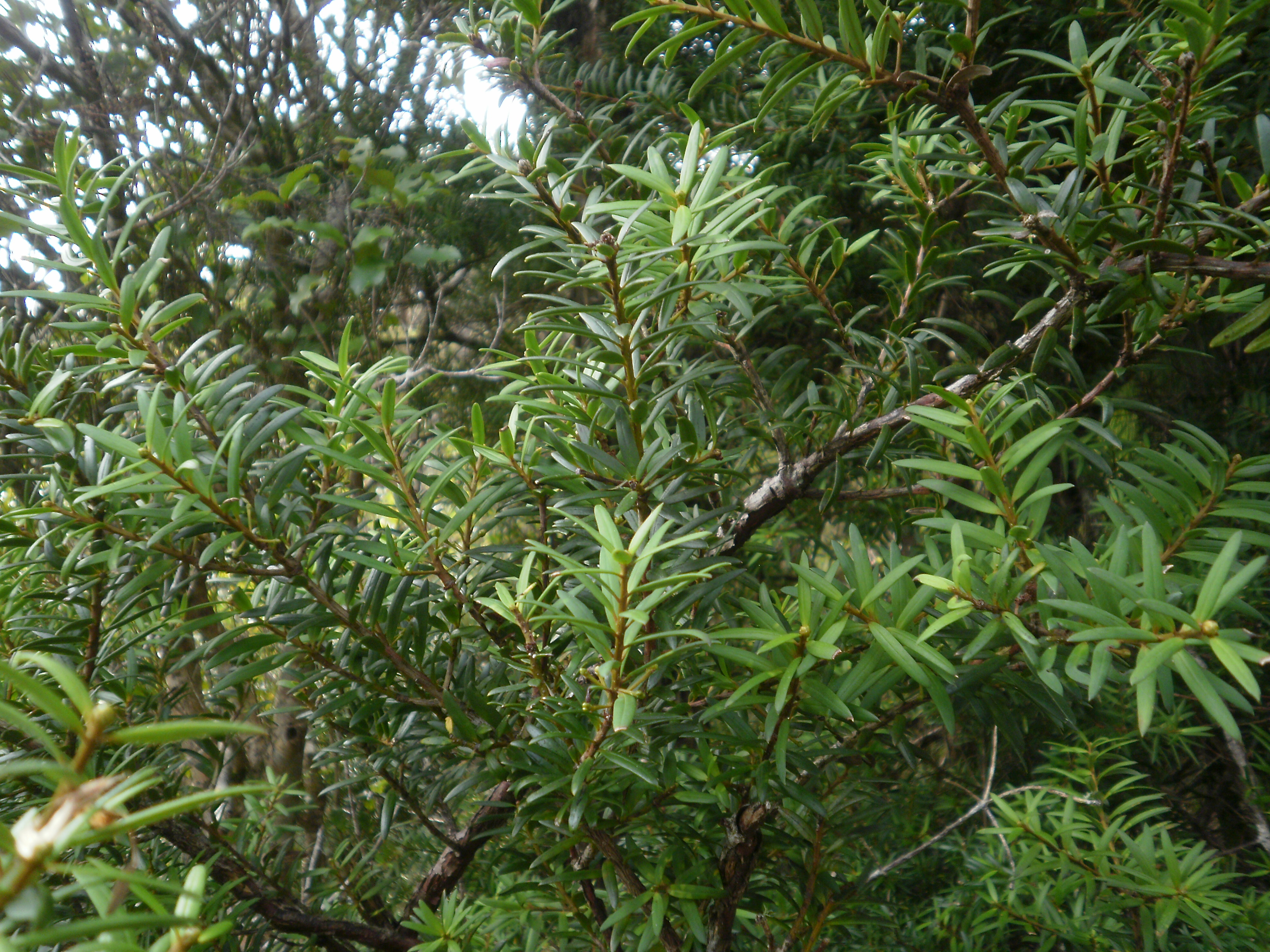 Podocarpus cunninghamii, Hall's tōtara, mountain tōtara, foliage in Stokes Valley, Wellington, New Zealand.